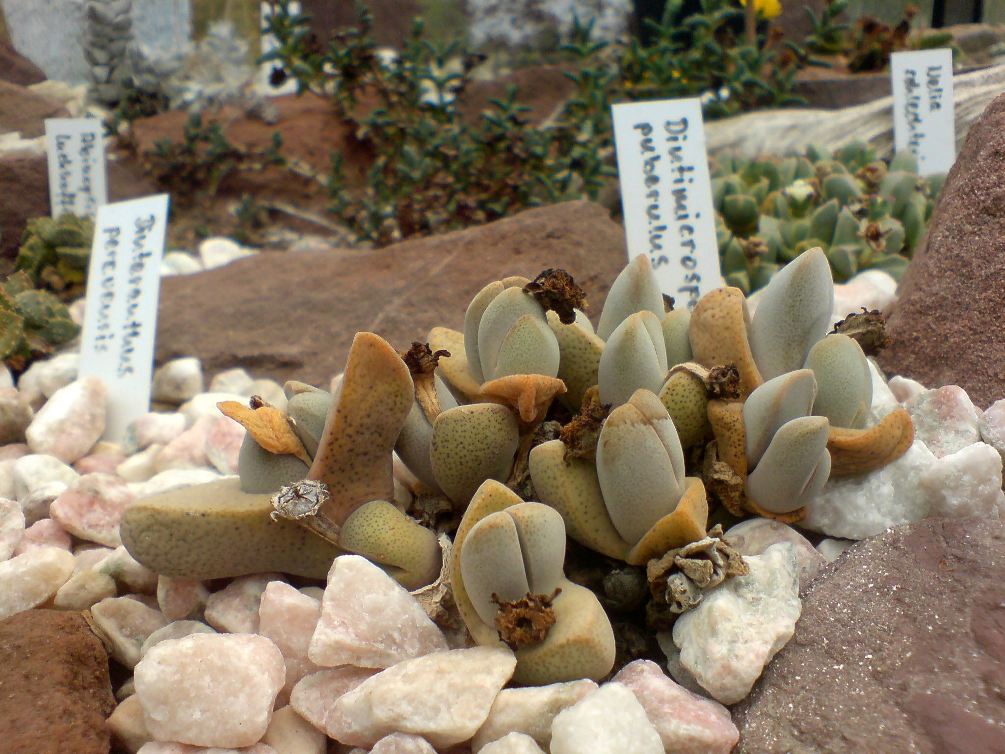 Dinteranthus microspermus puberulus - Botanical Garden Göttingen